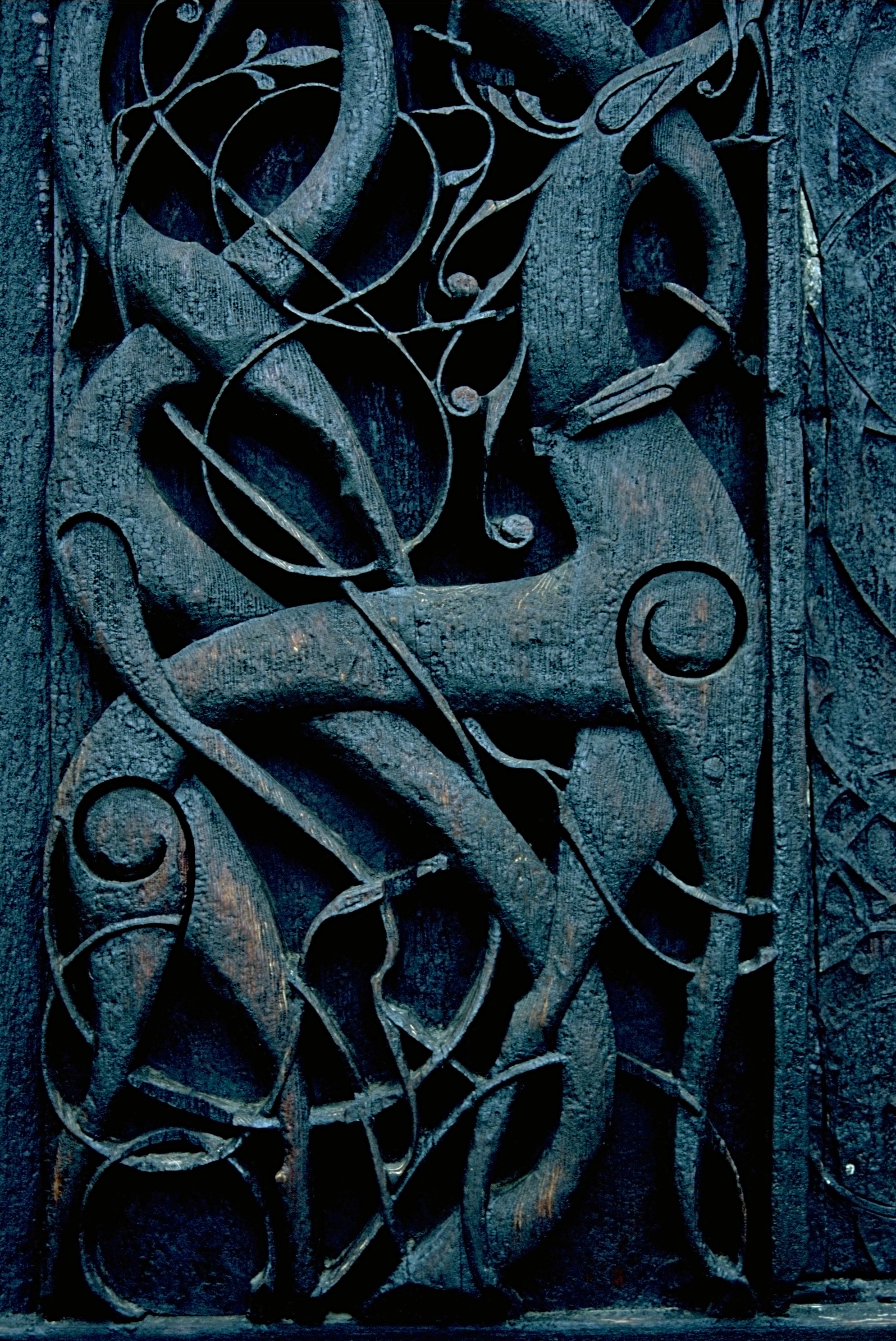 Carving at Urnes stave church